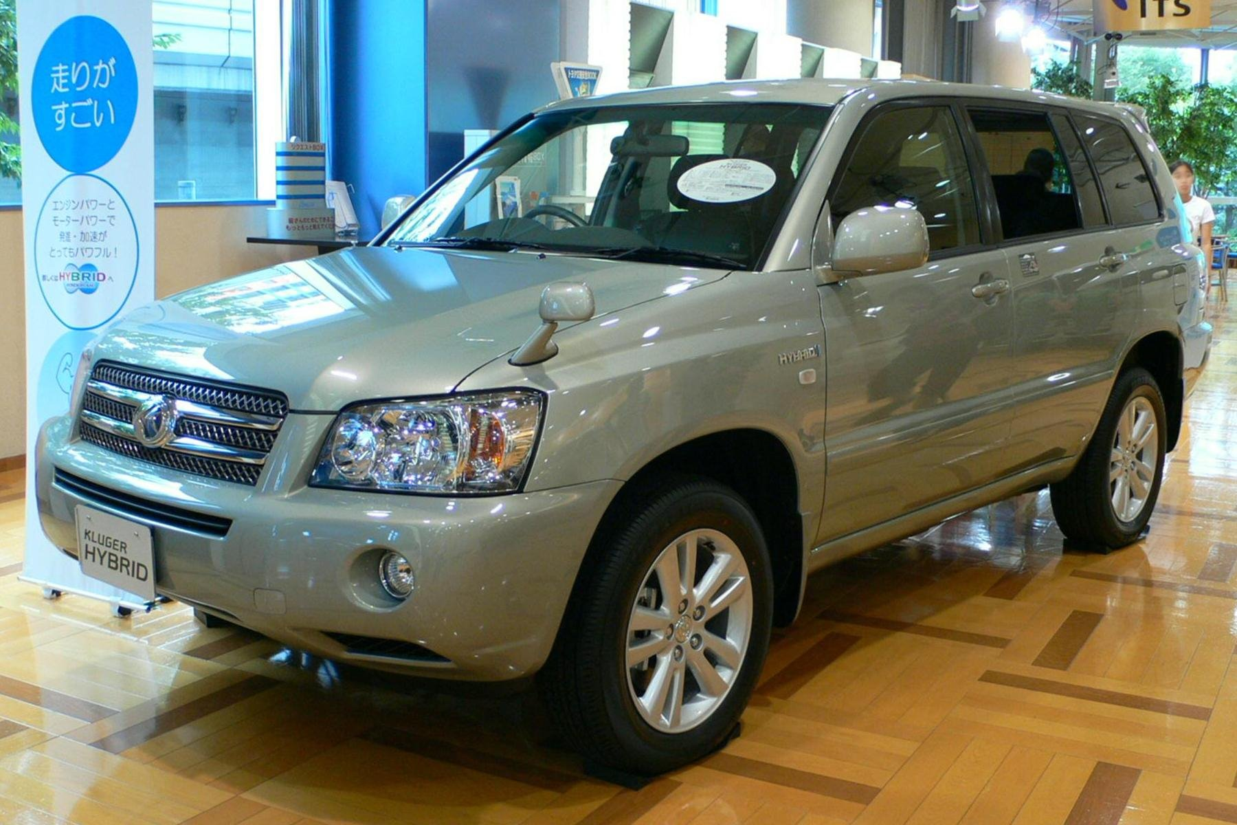 Toyota Kluger Hybrid taken in Showroom of Toyota-AMLUX